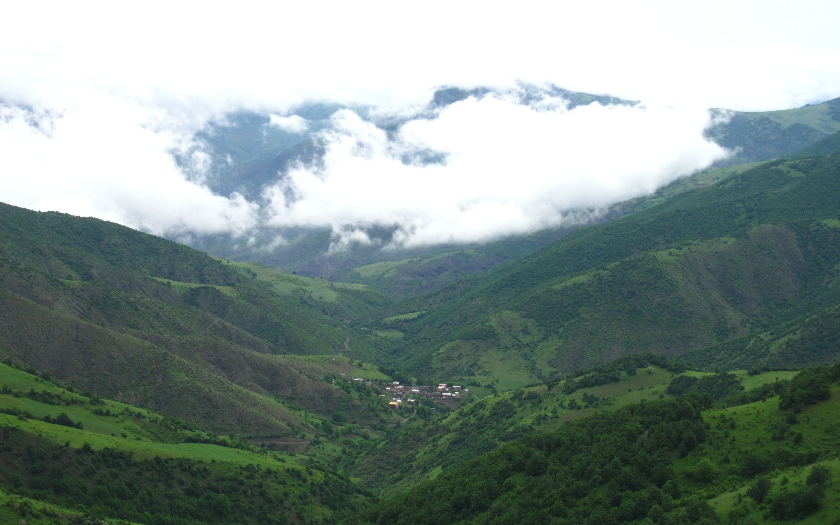 For AbbasAbad (Khodaafarin) wiki page.